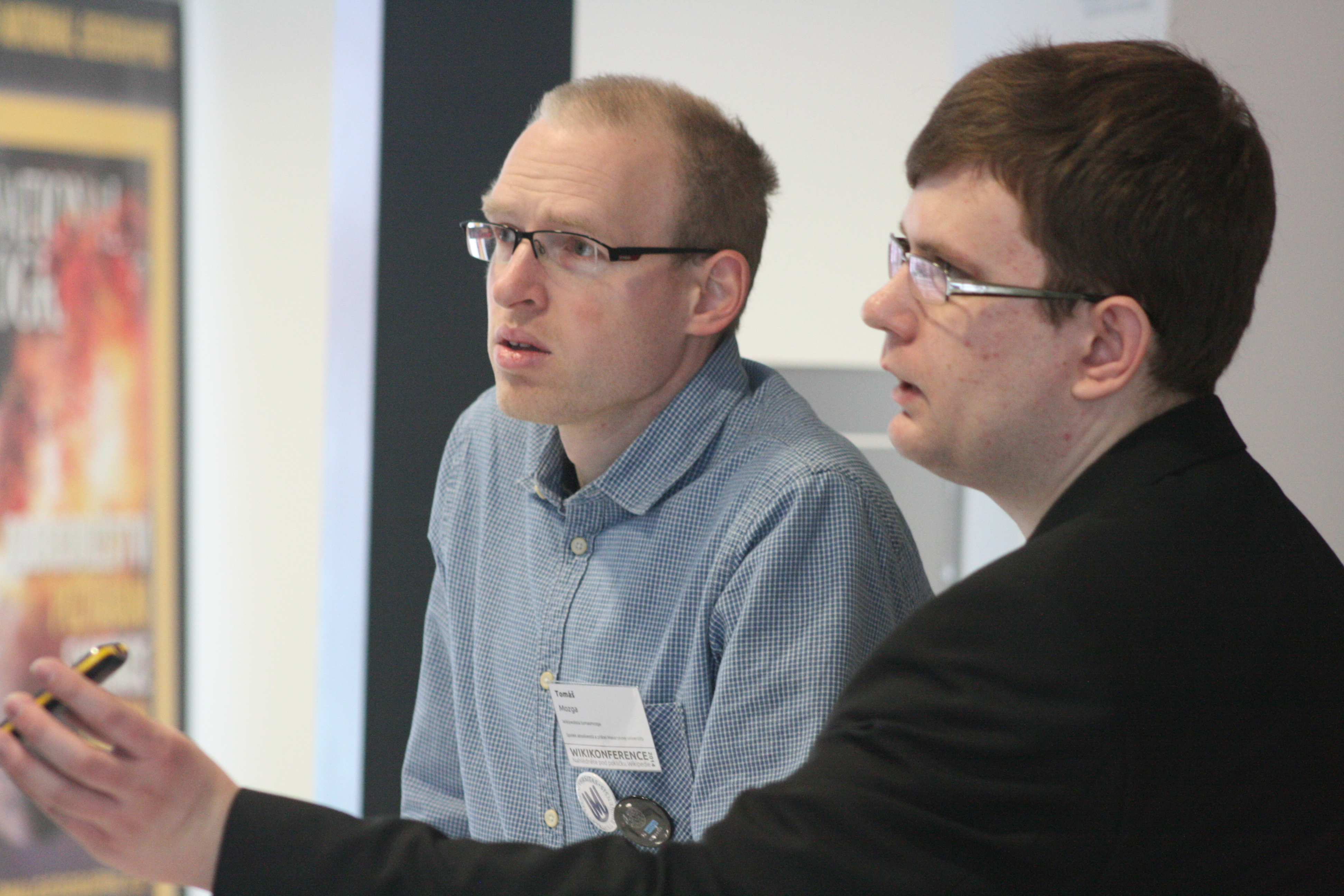 6th czech Wikiconference 29th November 2014 in Observatory and Planetarium Brno. Organisators behind attendance table (registration).